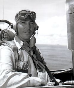 U.S. Navy LCDR James D. "Jig Dog" Ramage in an Douglas SBD Dauntless aboard USS Enterprise (CV-6) during WWII.